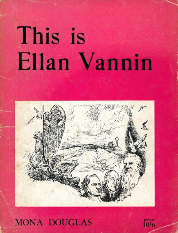 Mona Douglas' 1965 collection of articles that she wrote for the Isle of Man newspapers.